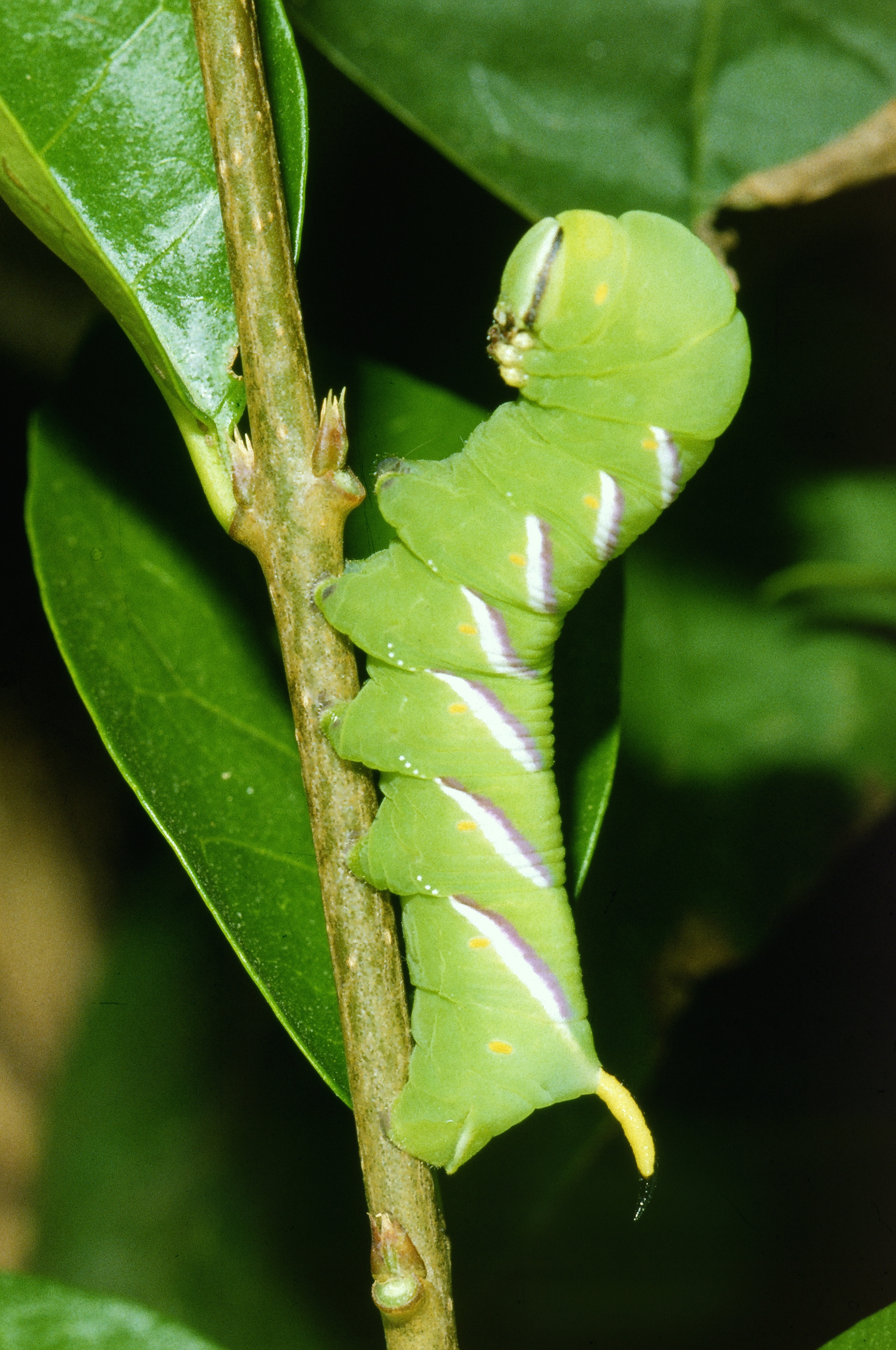 Caterpillar of sphinx ligustri taken in Calvados in France